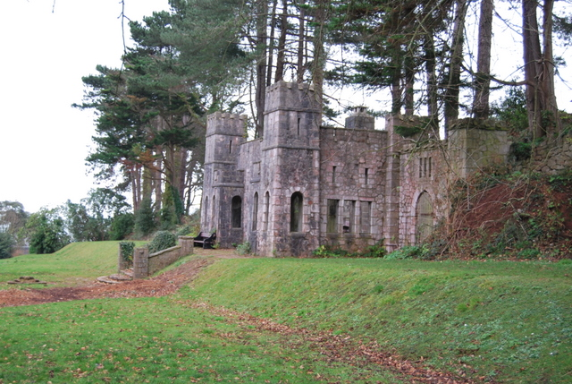 Castle ruin, Shaldon A castle ruin located in Homeyards Botanical Gardens. The photographer considers that this is more of a 'folly' rather than a true castle.